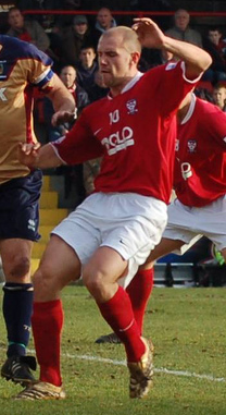 Craig Farrell